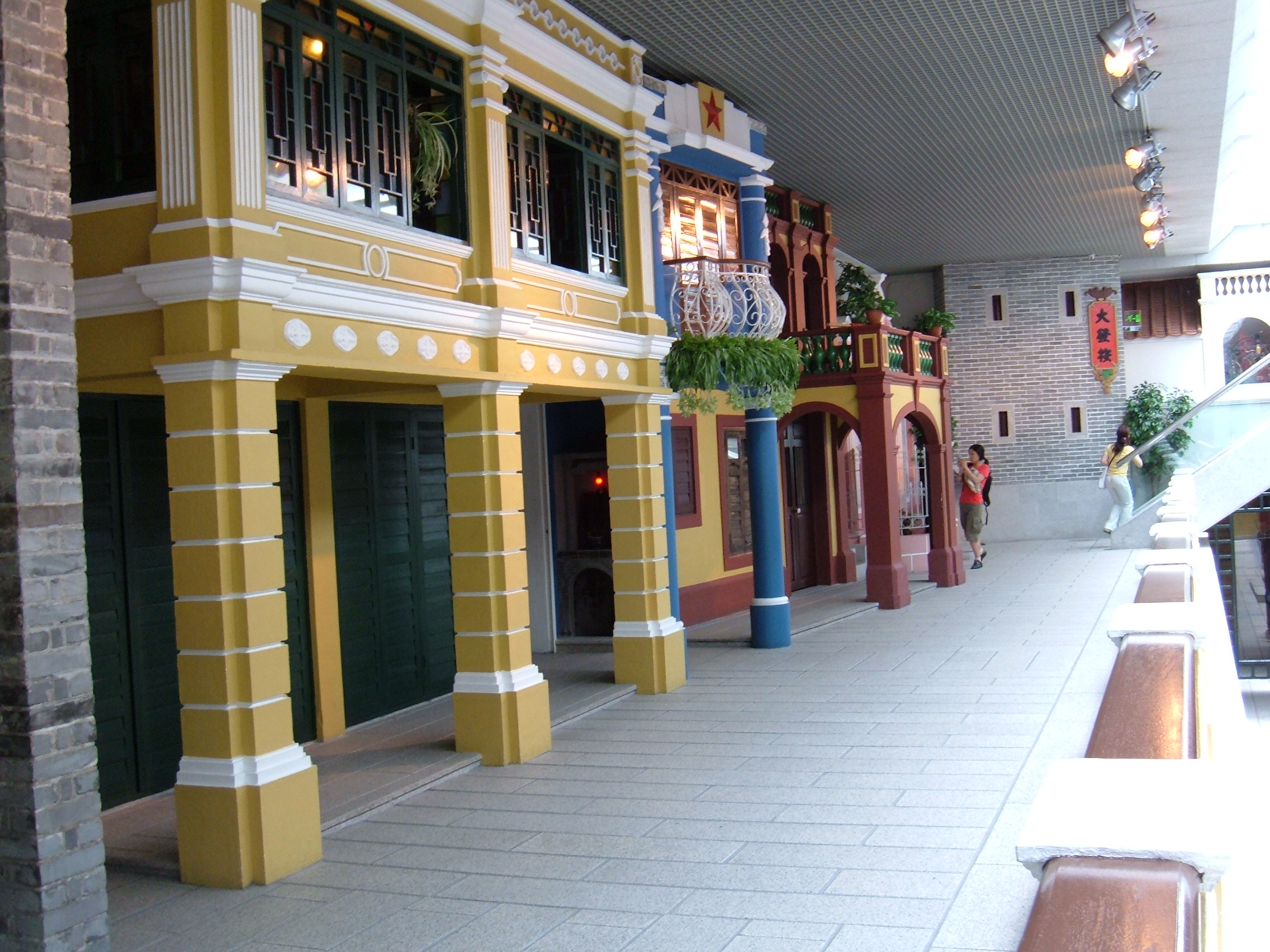 Historic streets of Macau in the Museum of Macau.